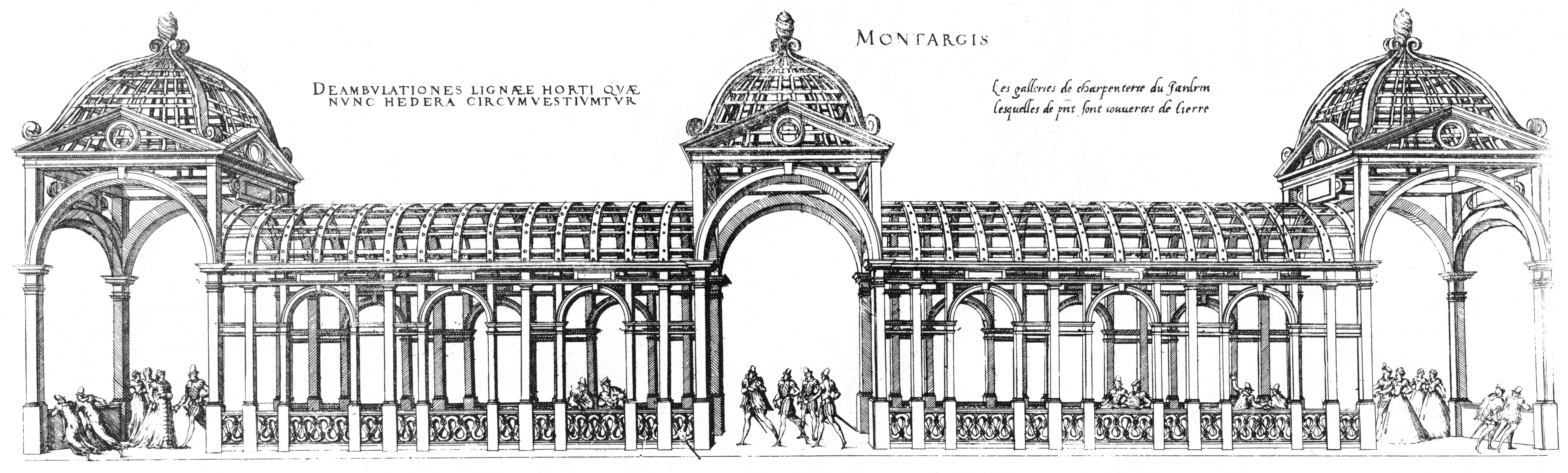 Engraving from Le premier volume des plus excellents Bastiments de France by Jacques I Androuet du Cerceau: garden gallery of the Château de Montargis